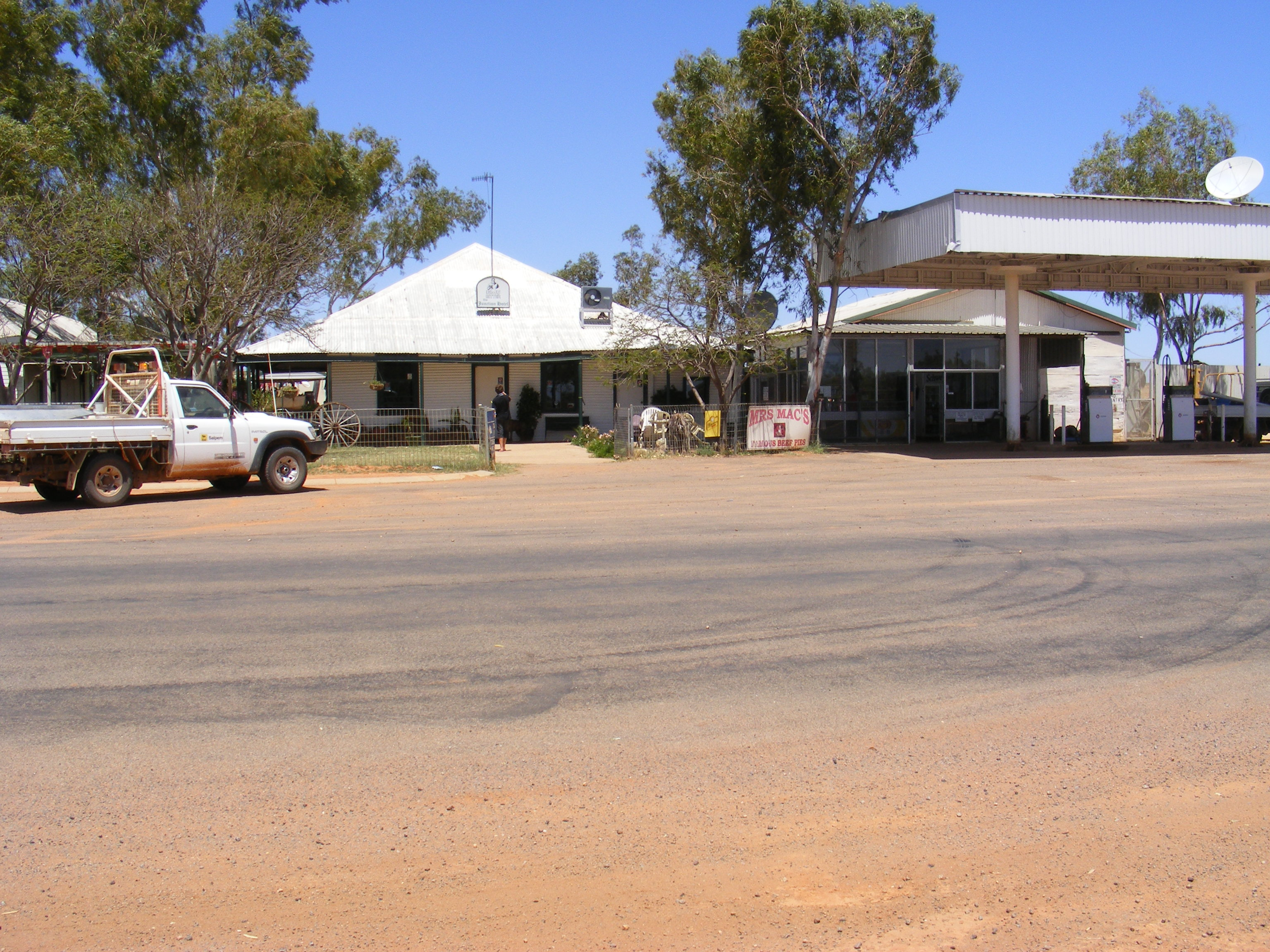 Gascoyne Junction Hotel. Note that the Gascoyne Junction Hotel was completely wiped out and destroyed in the 2010 floods and not rebuilt.